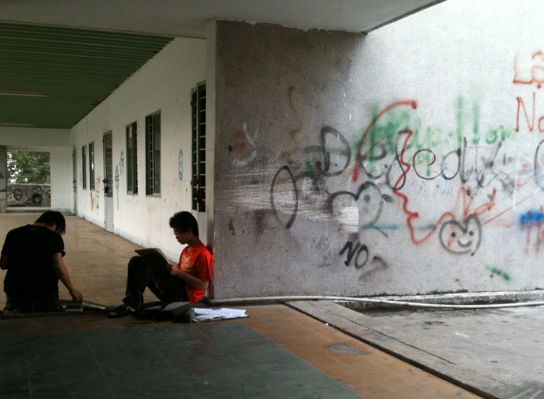 Two students studying in a hallway at the University of Architecture, Ho Chi Minh City, Vietnam.